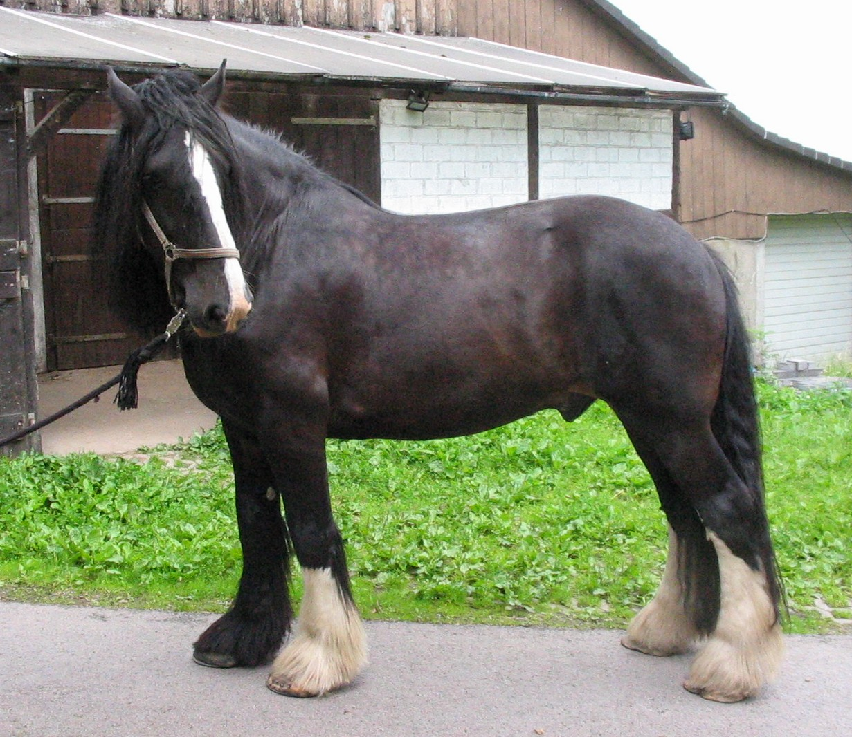 A Shirehorse named "Goliath" from the left, 9 years old, est. 1000 Kilograms weight